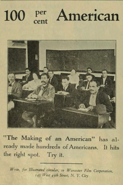 Advertisement for 1920 silent film The Making of an American Other information cropped from page 26